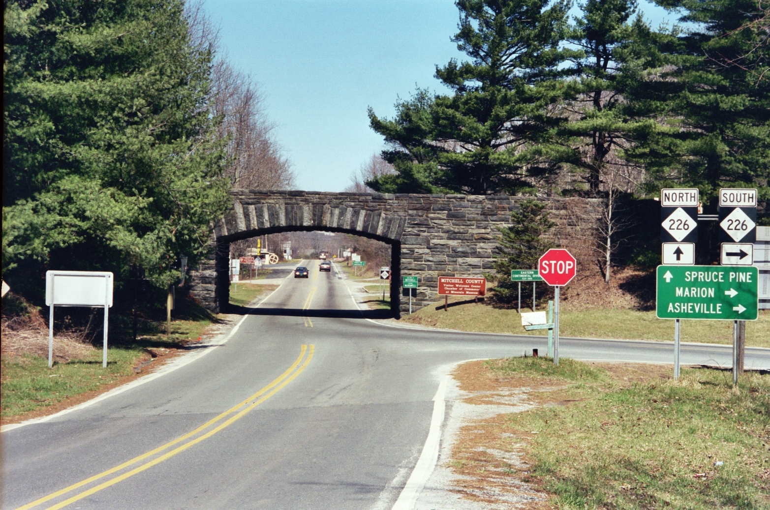 End of NC 226A at the intersection with NC 226, just feet from Eastern Continental Divide, Mitchell County, and the Blue Ridge Parkway.